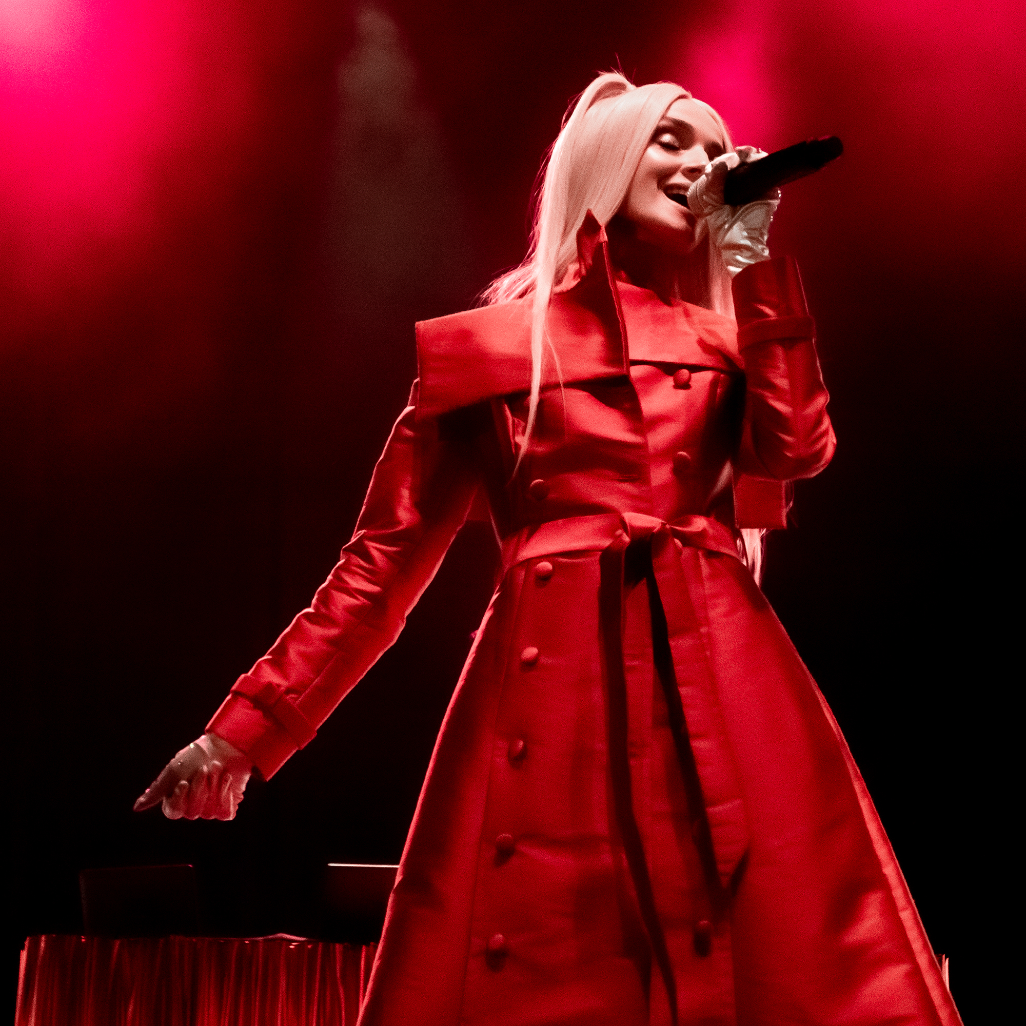 Poppy performing live at The Wiltern in Los Angeles, California, on Wednesday, October 31, 2018.